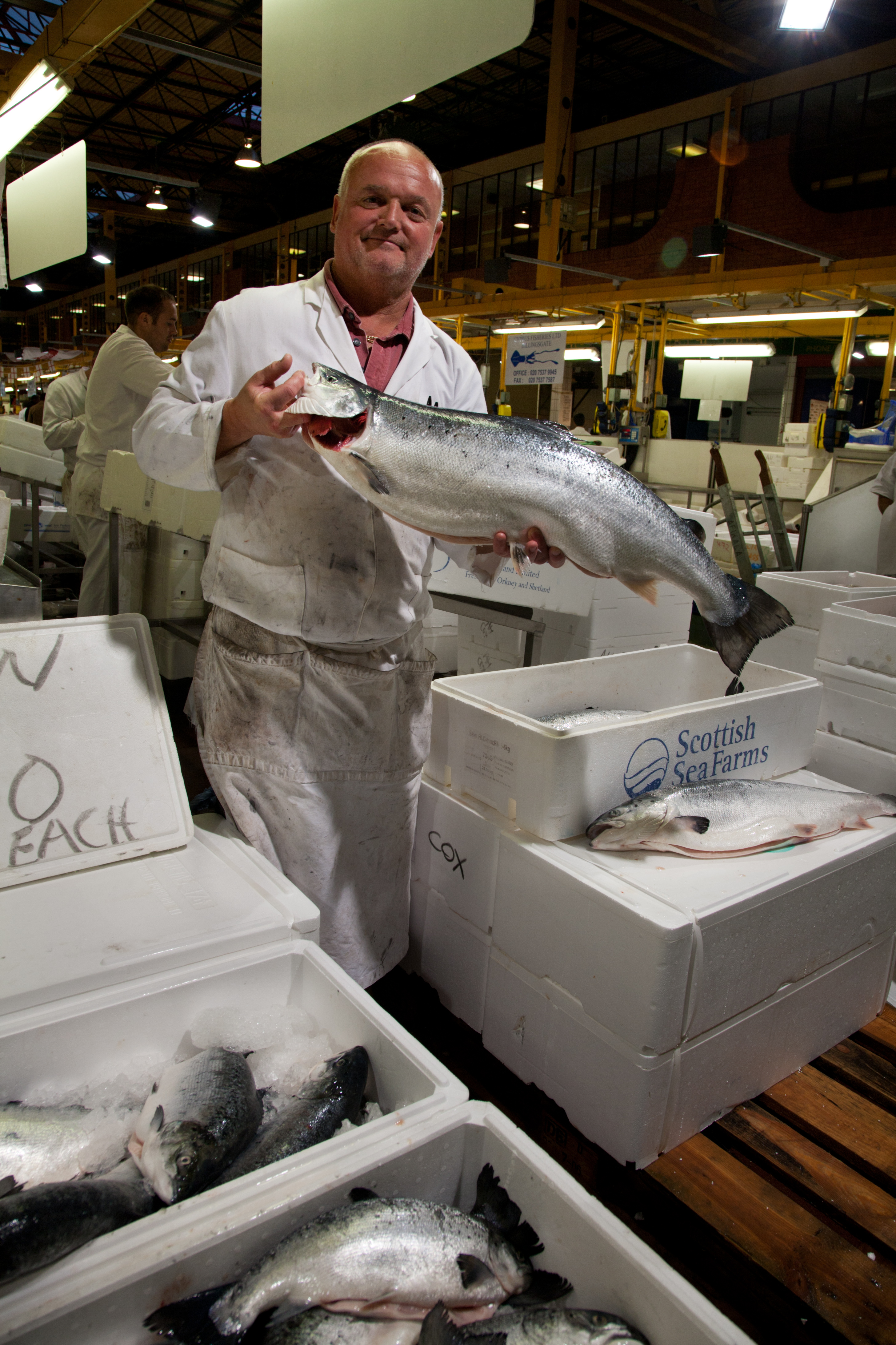 Billingsgate Fish Market, London, UK